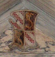 Coat of arms of Sigismondo Malatesta; Temple of Malatesta, Rimini, Italy